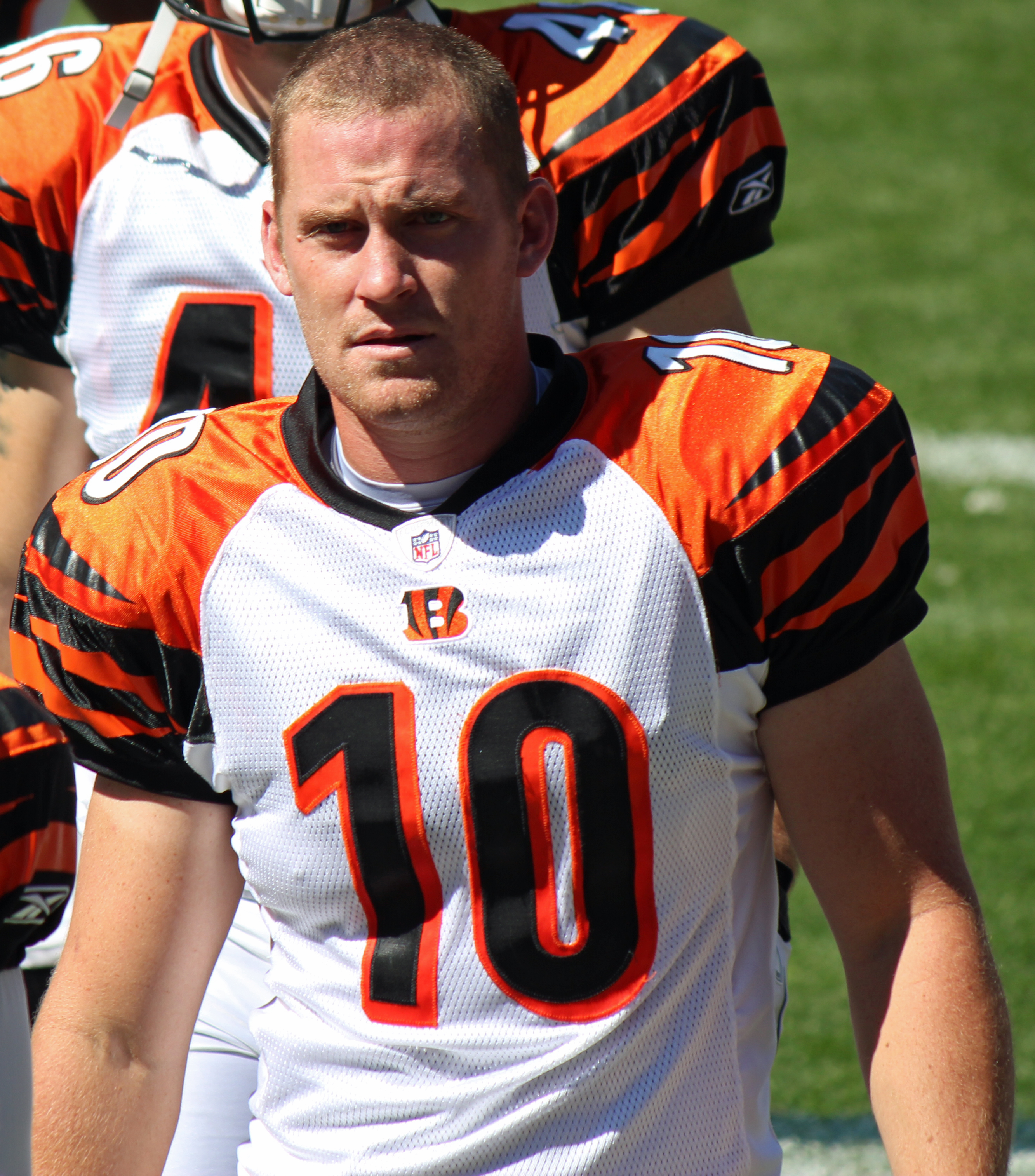 Kevin Huber, a National Football League player.